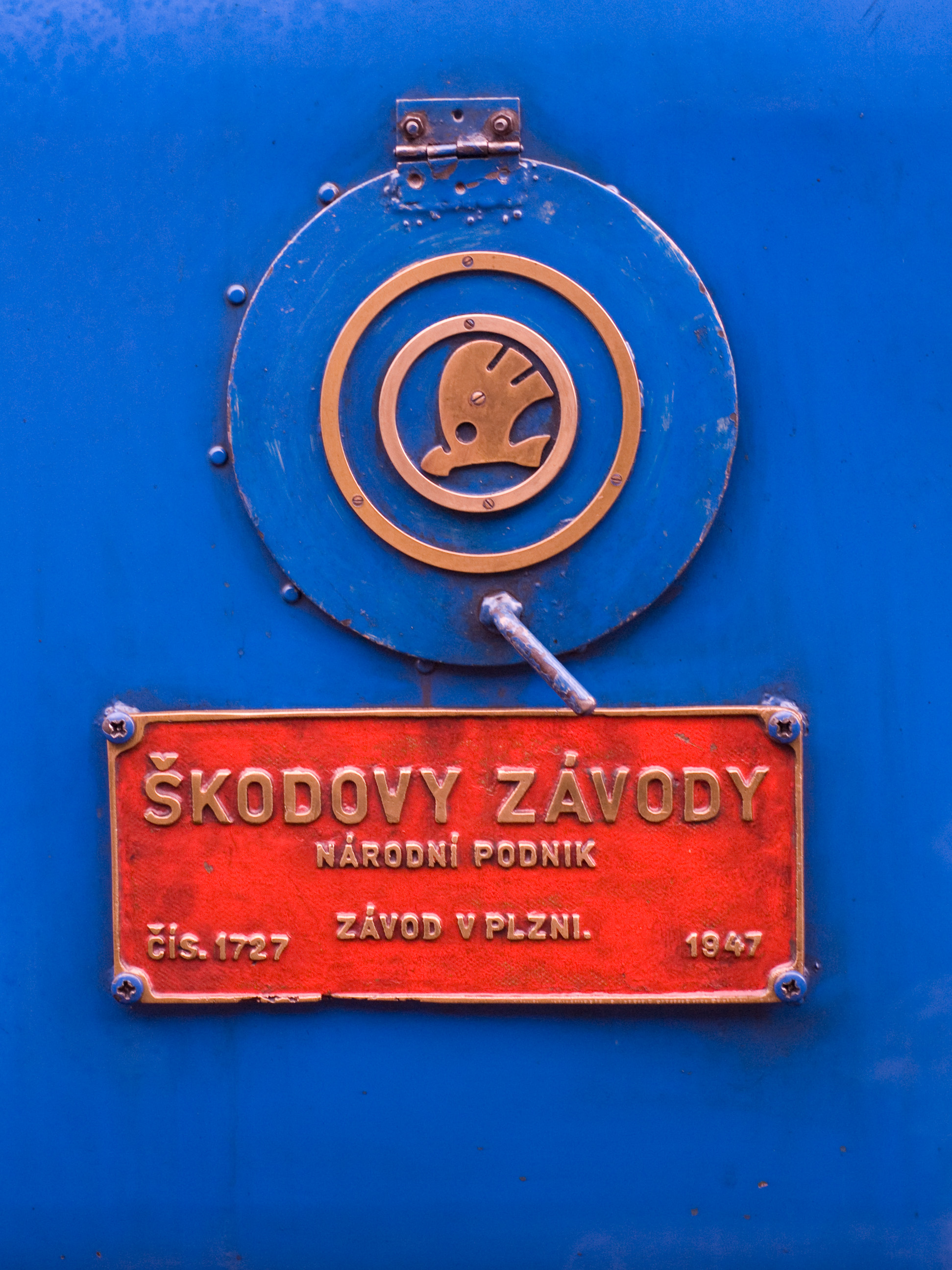 Albatros locomotive, historical train Křivoklát expres